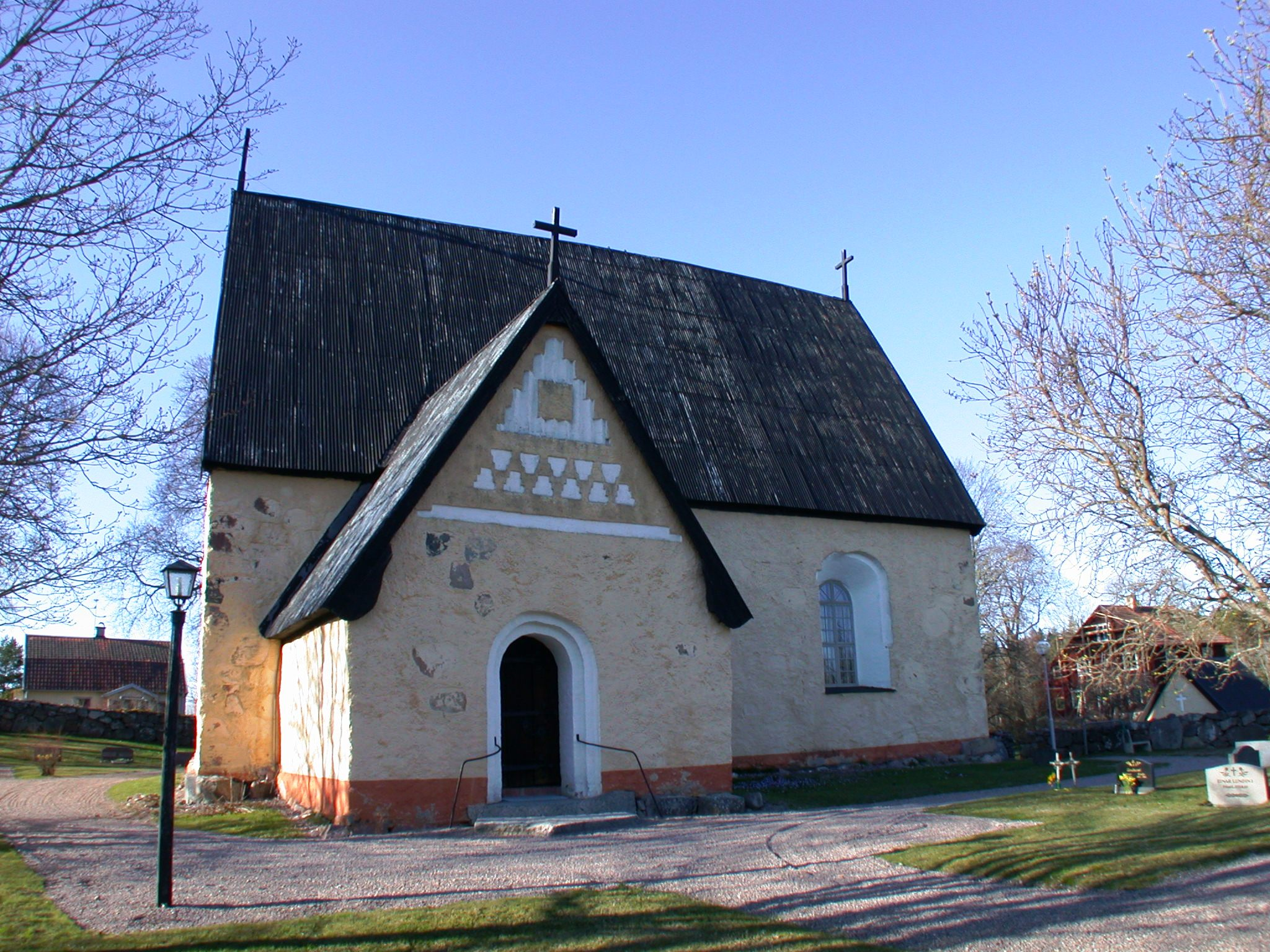 Bladåker church, Uppsala, Diocese of Uppsala, Sweden